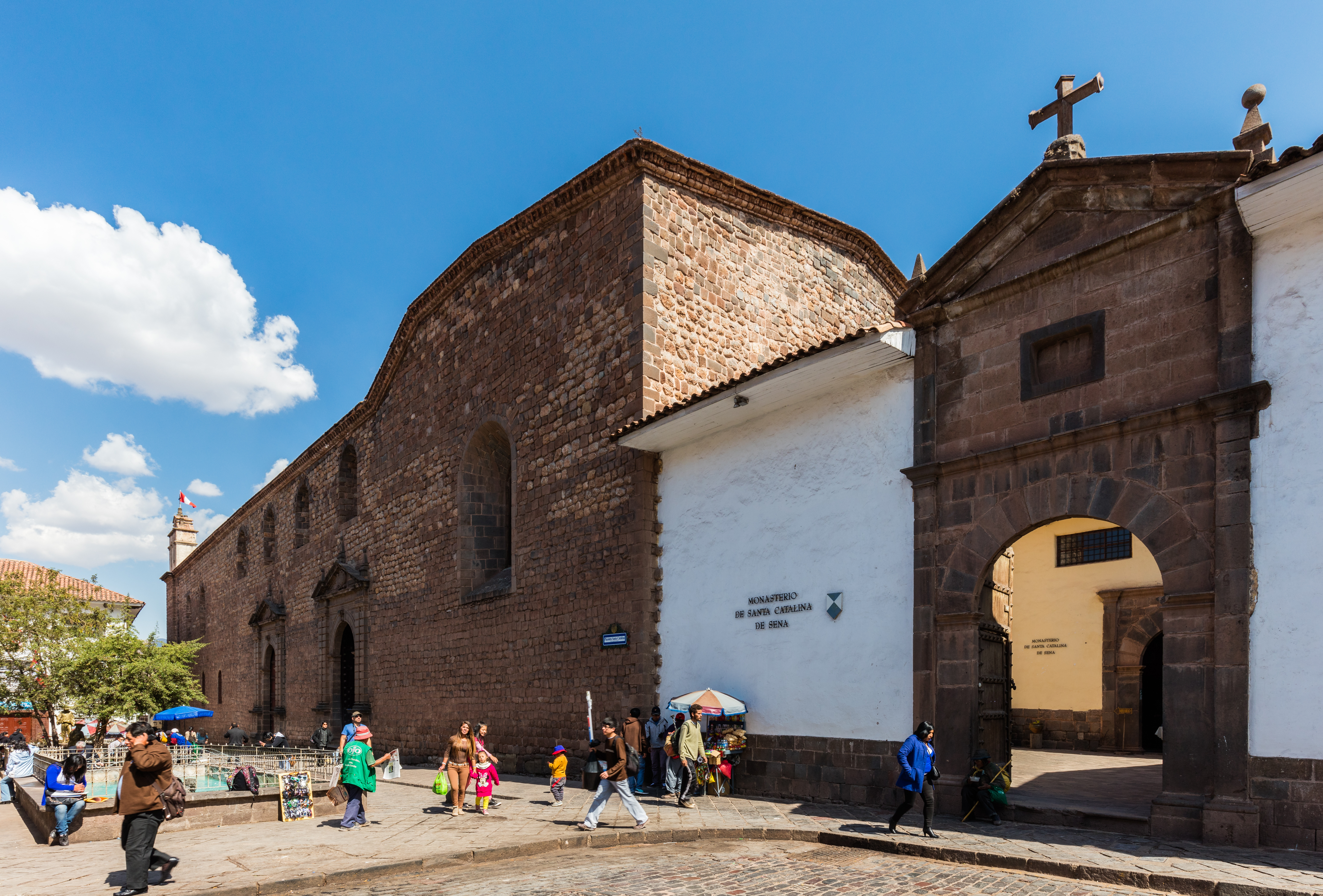 St Catherine church and convent, Plaza de Armas, Cusco, Peru